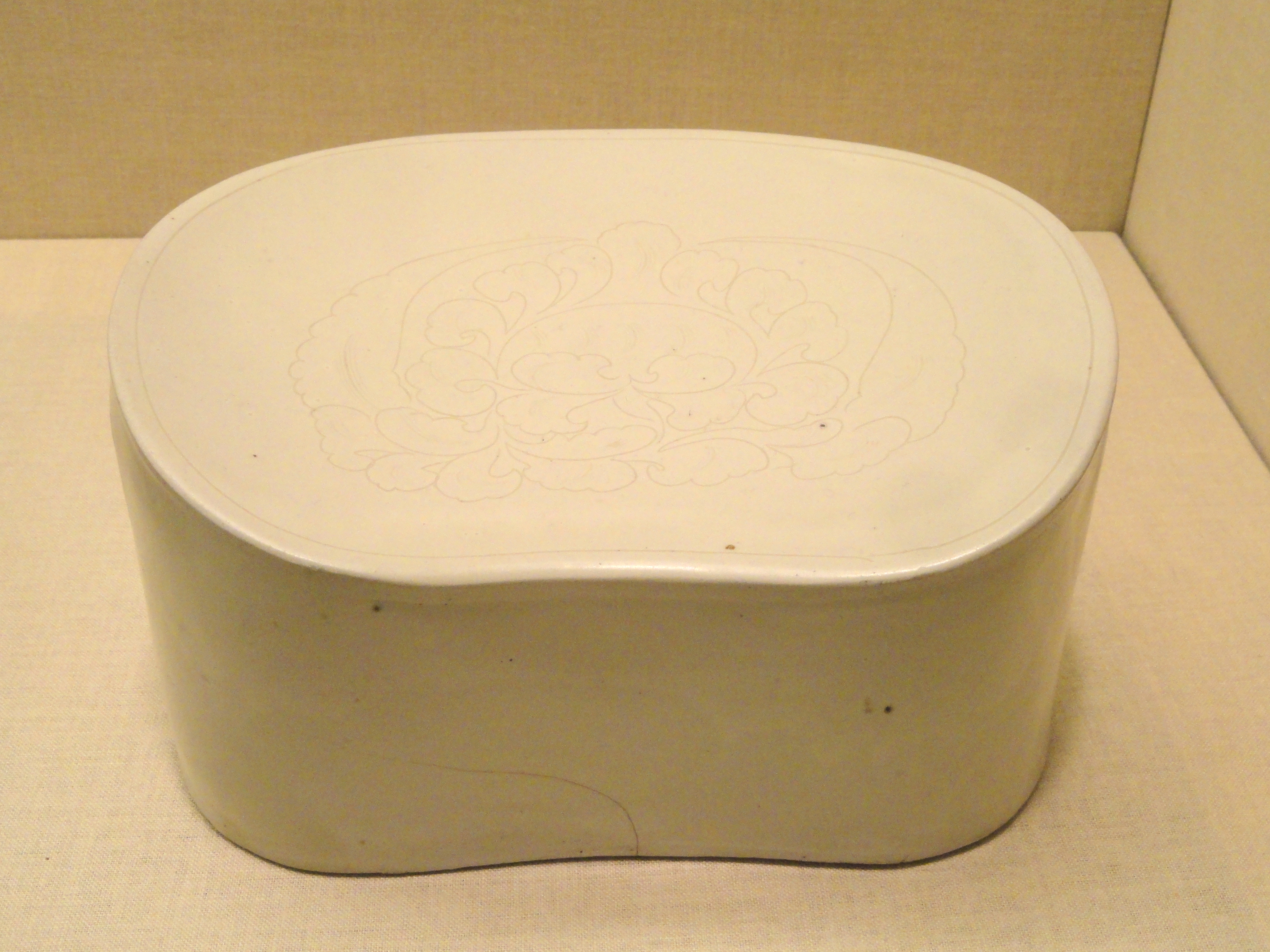 Exhibit in the Art Institute of Chicago, Chicago, Illinois, USA. This artwork is in the public domain because the artist died more than 70 years ago.